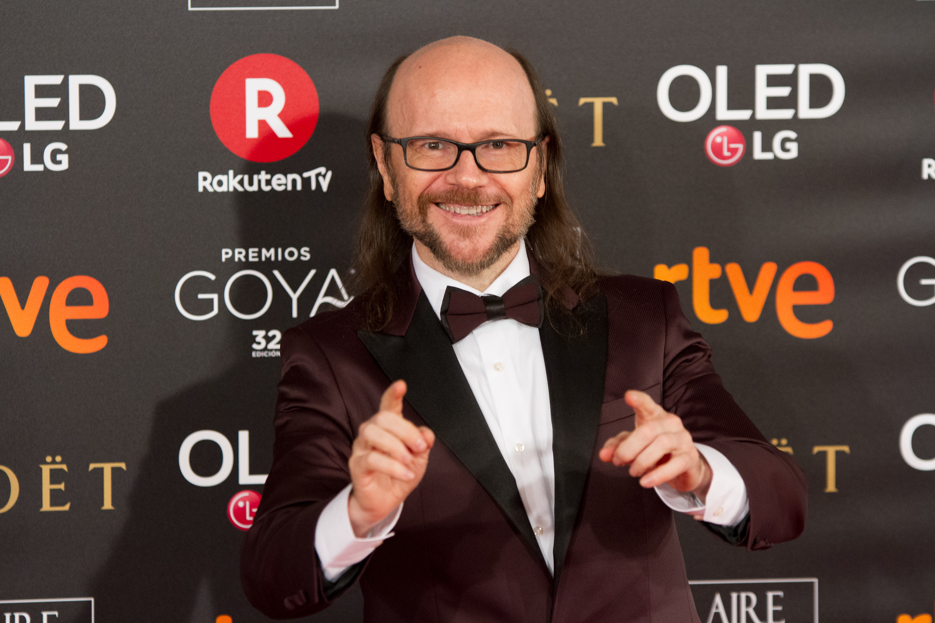 32nd Goya Awards, 2018.